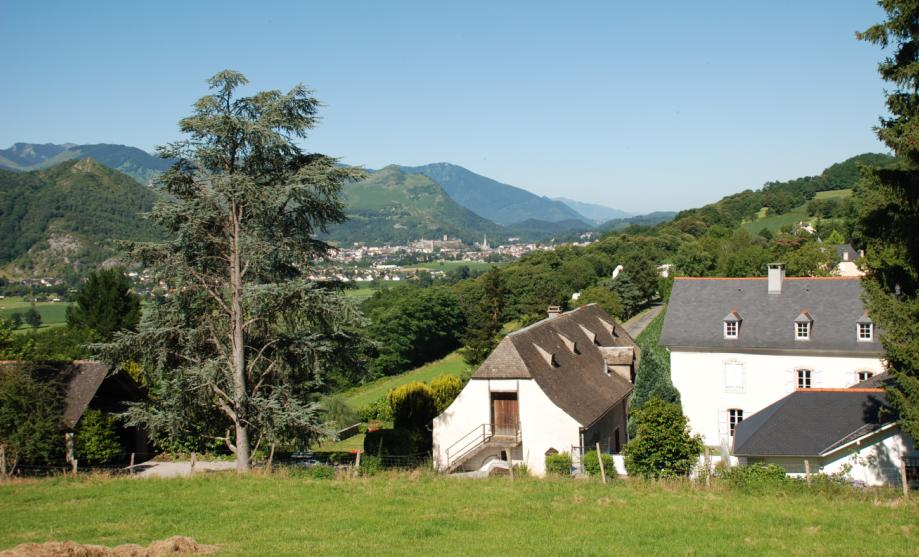 En ço de Borie House, Bourreac with sight upon Lourdes